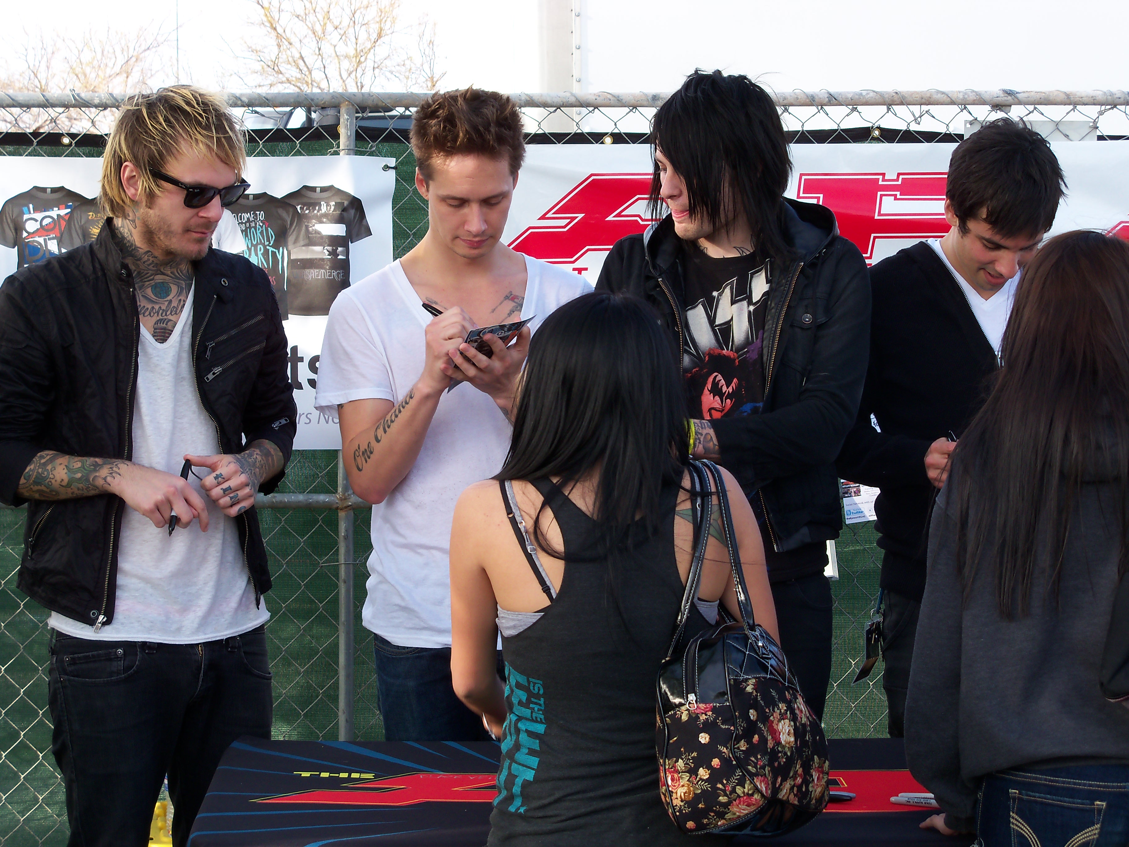 Rock band Destroy Rebuild Until God Shows (D.R.U.G.S.) at a signing table after their first ever Nevada show to meet and give signatures for their fans. Craig Owens is shown far-left.